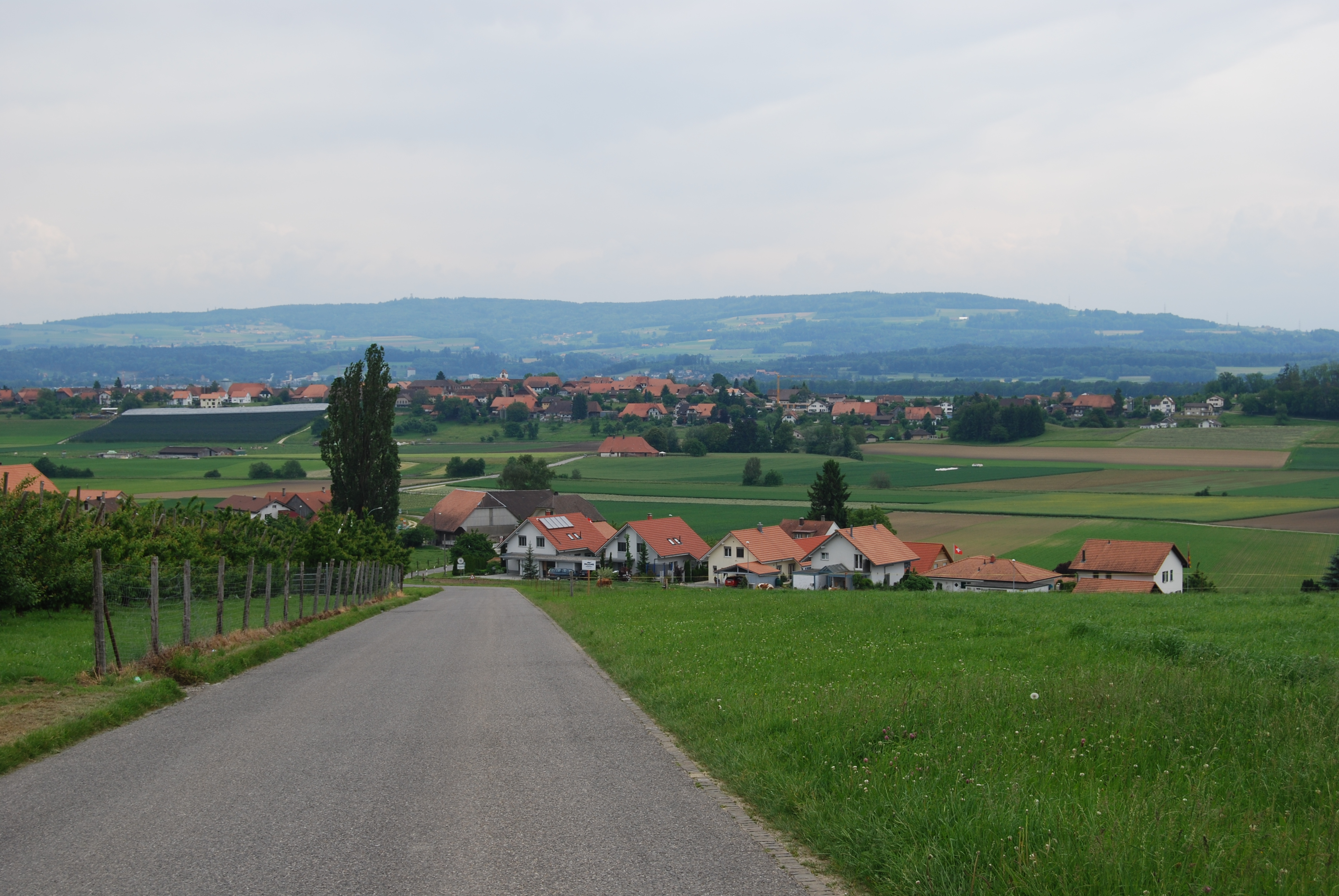 Epsach and Walperswil, canton of Bern, Switzerland